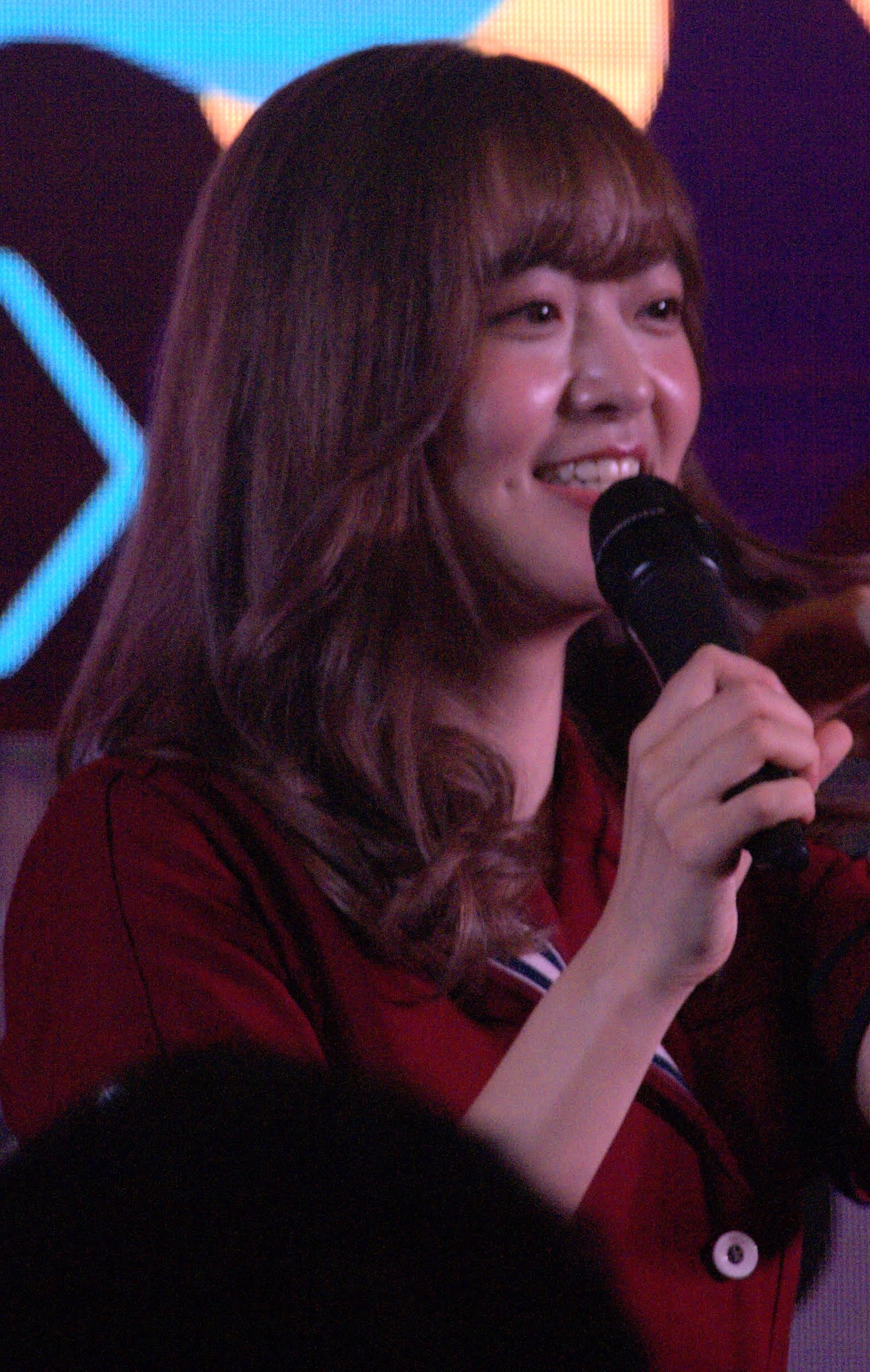 Sally Amaki at Creators Superfest